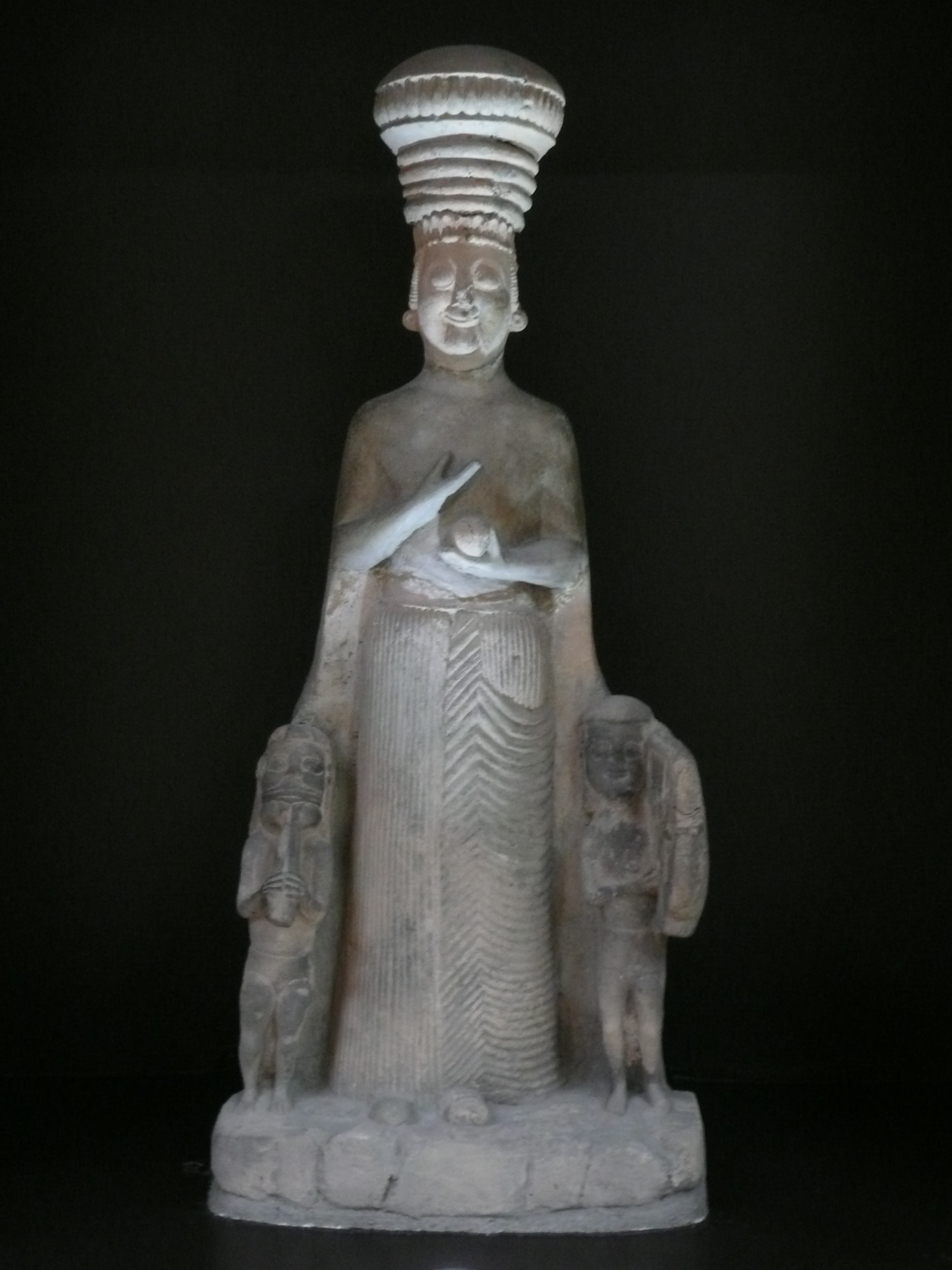 Phrygian statue of Kybele/Agdistis from the mid-6th century BCE housed at the Museum of Anatolian Civilizations in Ankara, Turkey